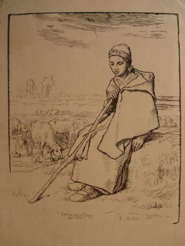 Jean-Baptise Millet (after Jean-François Millet) - La grande bergère assise